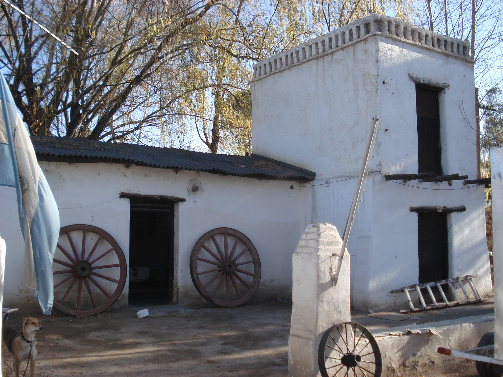 Model of "fortín" used in the Conquest of the desert exposed in Cipolletti, Río Negro province, Argentina.